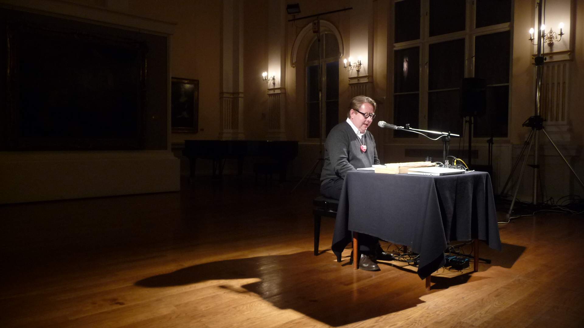 25th Music Biennale Zagreb croatia